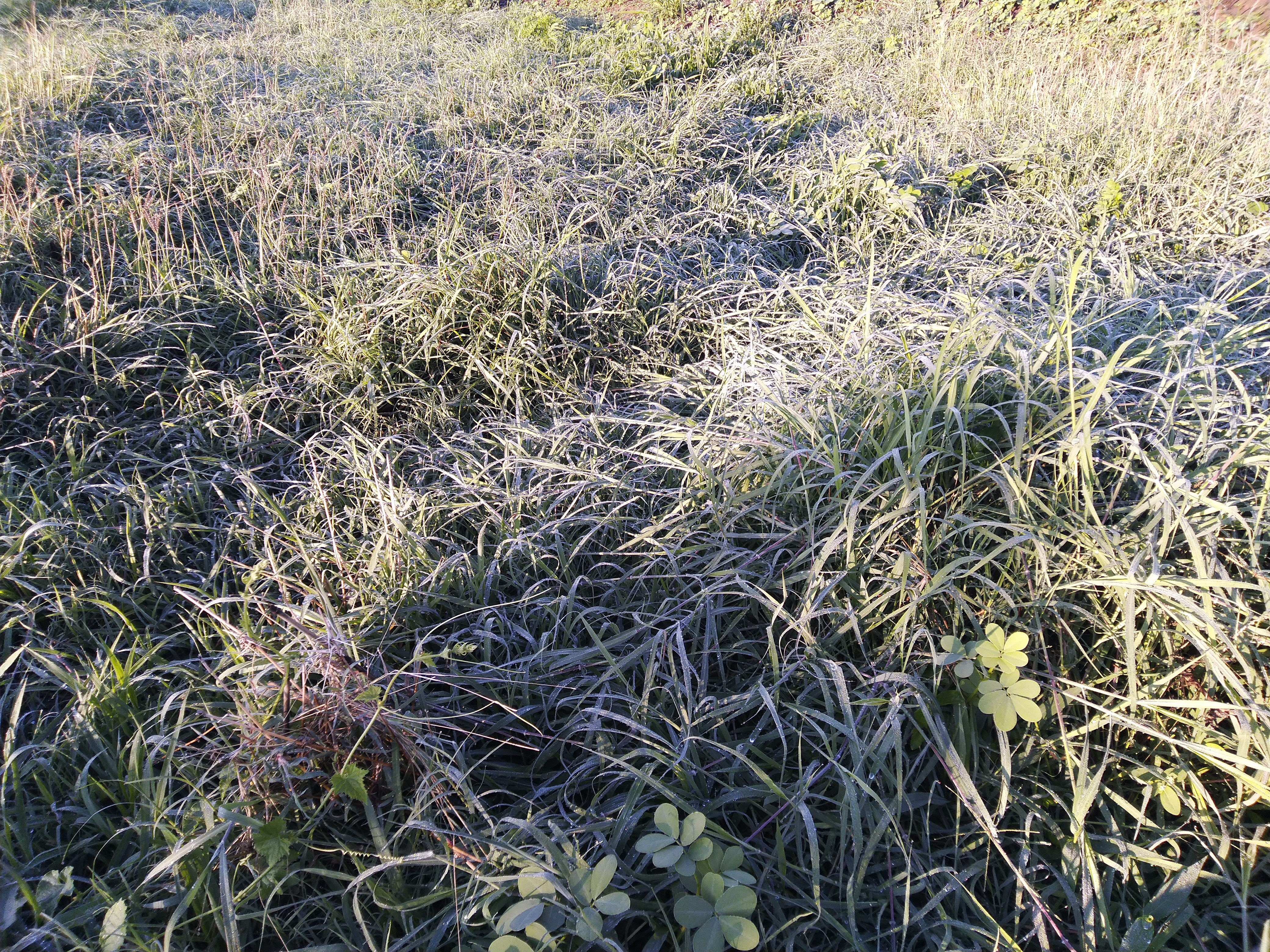 This image is taken in the area of Jamthi Kh. village, Tq. & Dist. Hingoli, Maharashtra on Deccan Plateau, India.